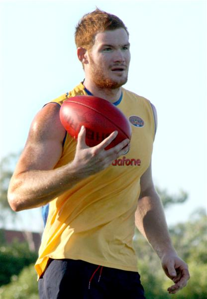 Daniel Merrett at a Brisbane Lions public training session in 2008.